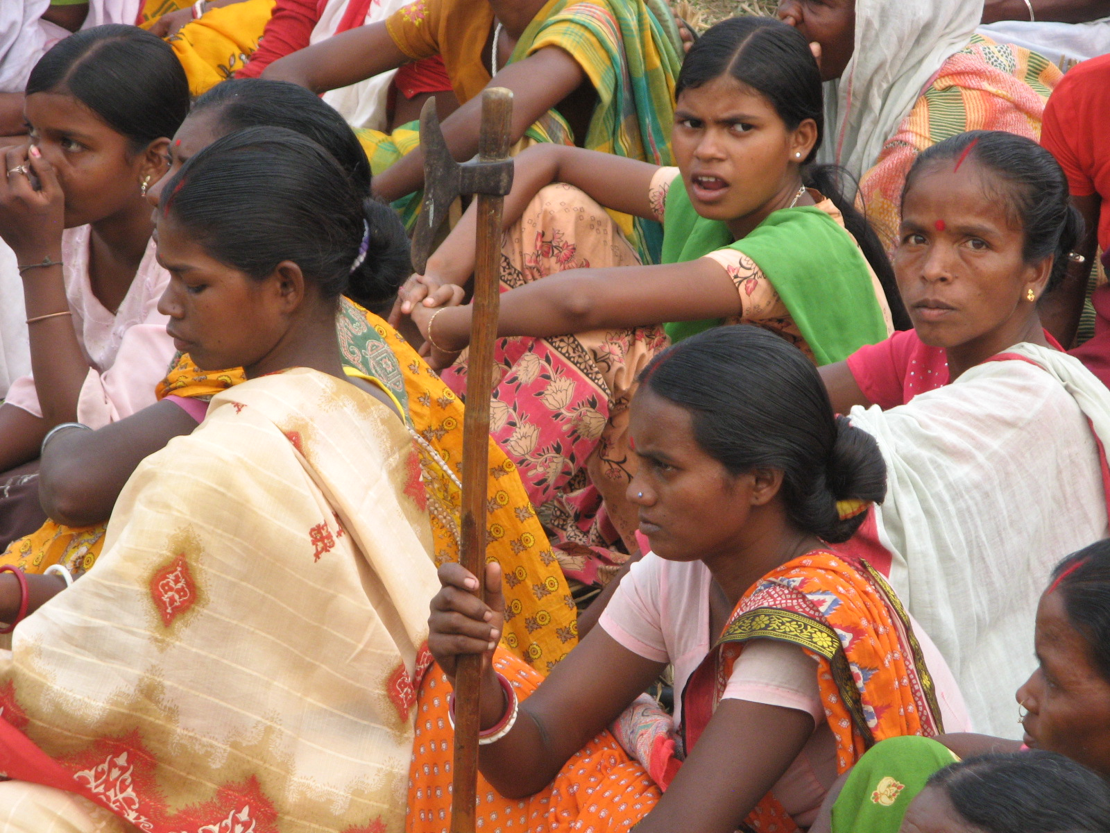 The adivasi women of Lalgarh village attending a meeting. Ever since the commencement of the movement from 5th November 2008, there has been a spurt in the adivasi women actively participating in politics and democratic meetings.